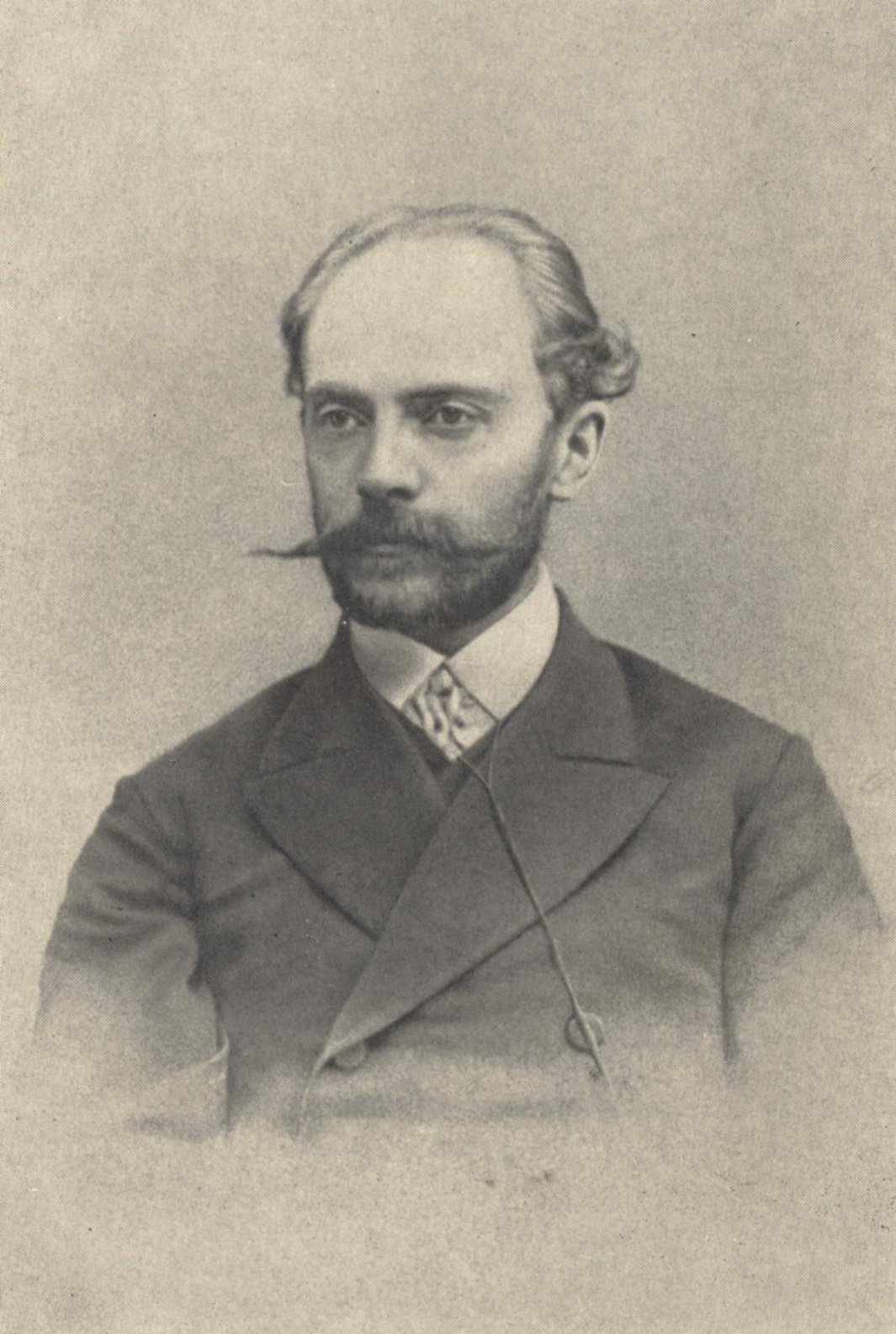 Konstantin Sluchevsky in 1880s large image Константин Константинович Случевский в 1880-х годах. Фотография (Пушкинский дом).